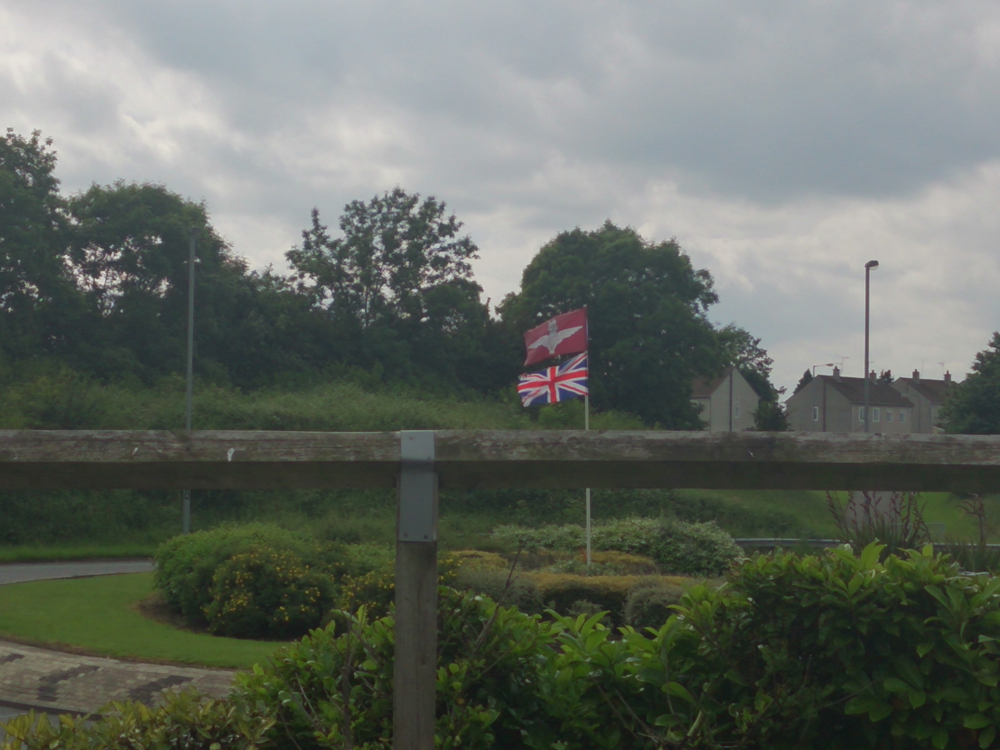 The flag of the Parachute Regiment flying along side the Union Flag in a loyalist area of Ballymena.The Parachute Regiment were responsible for the deaths of Nationalist protesters on Bloody Sunday.The flying of this flag could be interpreted as offensive to the Catholic/Nationalist/Republican community in Northern Ireland.